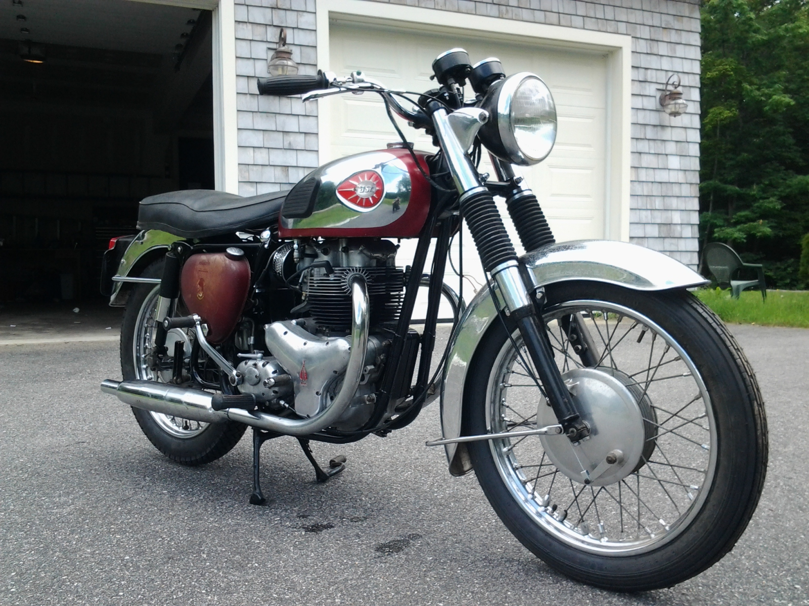 My awesome motorcycle in my driveway